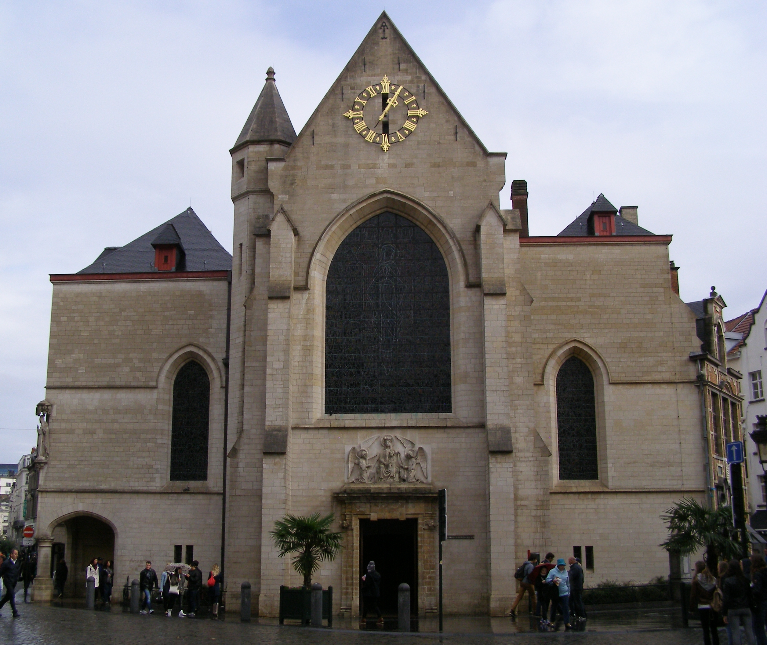 Brussels - St. Nicholas church